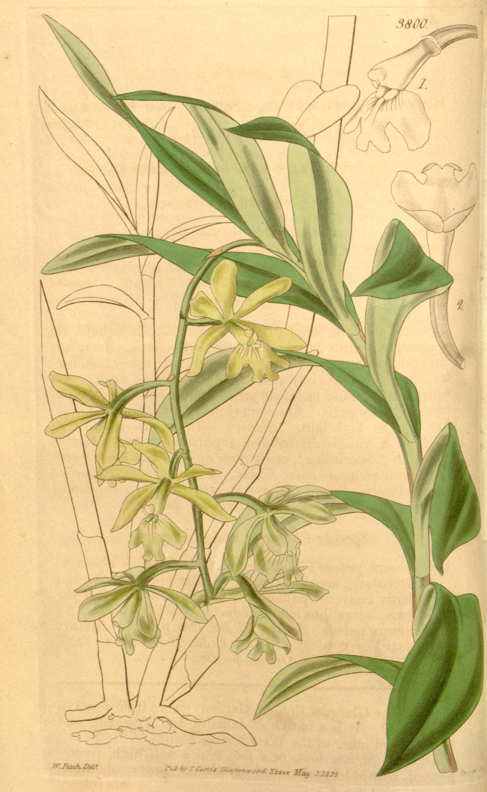 Illustration of Epidendrum patens